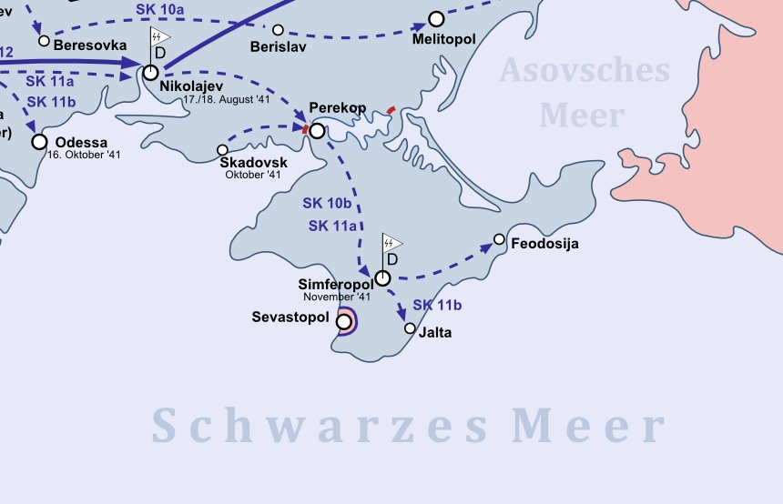 German Map, showing the conduct of operation of the German "Einsatzgruppen" of the SS in the Crimea in 1941.